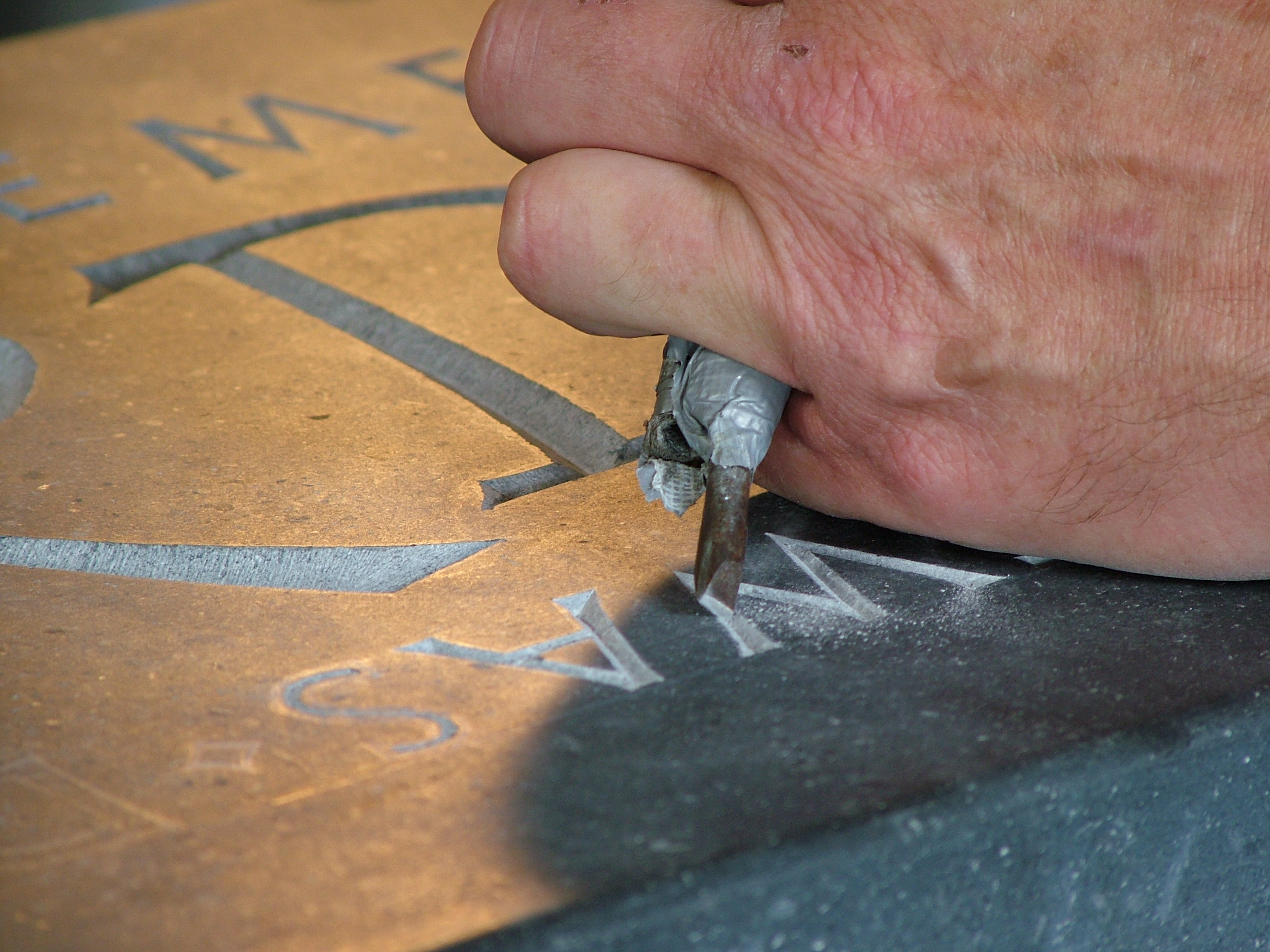 Engraving, in the Afbramerij (DRU, UlfT/NL)